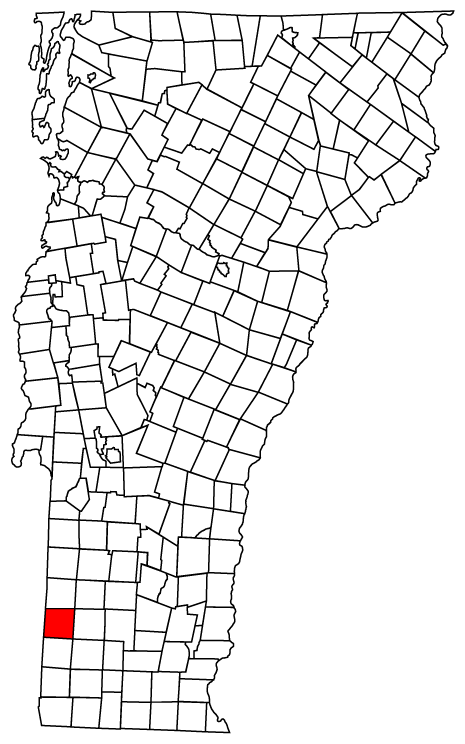 Map of Vermont towns with Arlington highlighted © Jared C. Benedict.